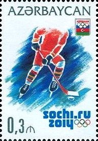 XXII Olympic Winter Games. Sochi - 2014. N 1132 - 30 qapik. Ice hockey